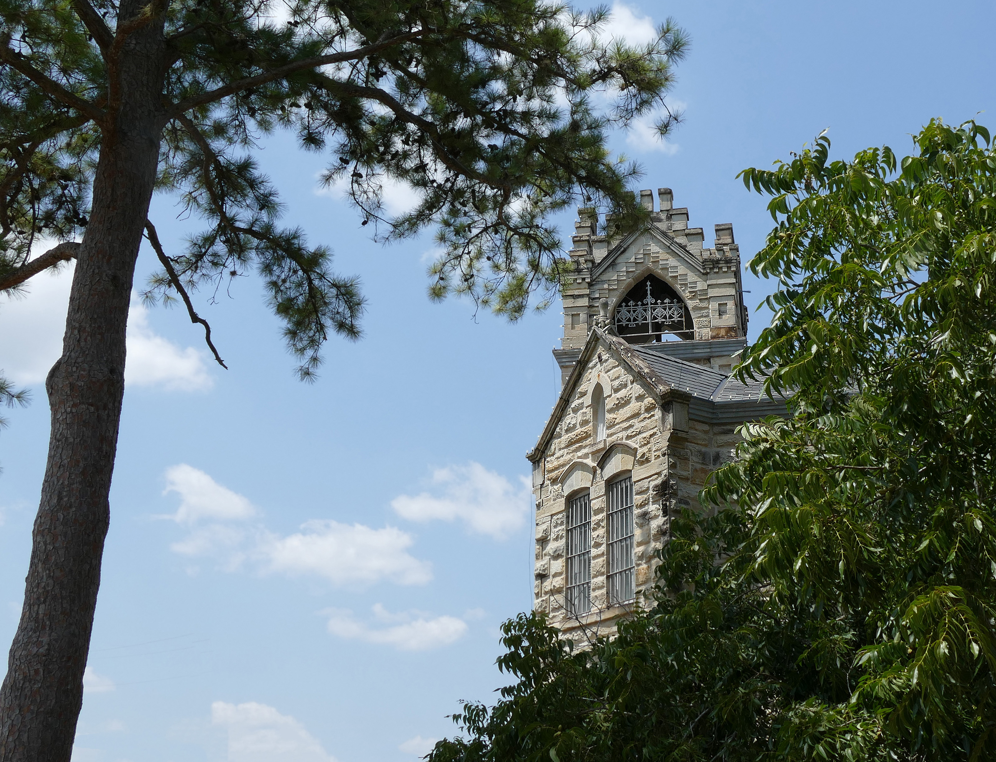 Old Fayette County Jail in La Grange Texas